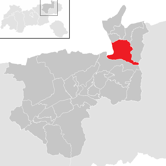 District Kufstein